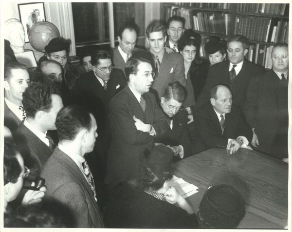 The poet and novelist Abraham Moses Klein, shown here standing, at the center of the photograph, in the Jewish Public Library, Montreal, in 1945